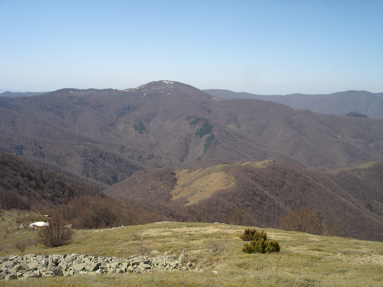 Lisec peak on Plackovica mountain, Macedonia